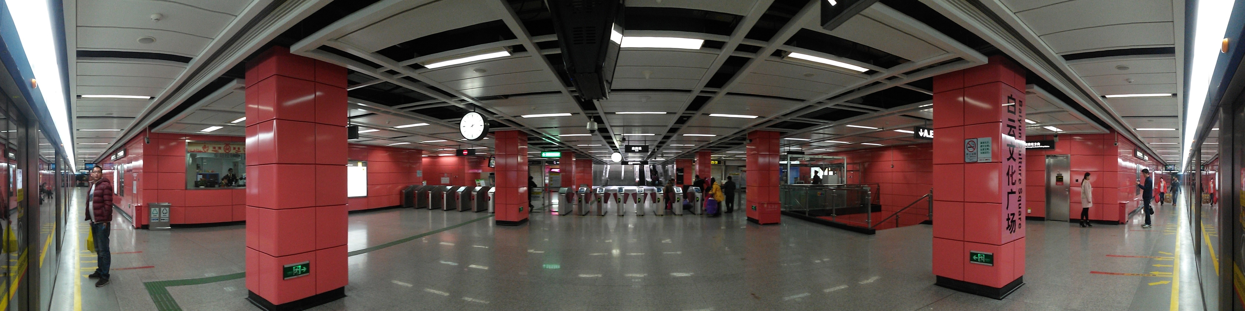 FULL SIGHT of Platform (Towards Jiahe Wanggang Station) for Baiyun Culture Square Station in Guangzhou Metro.